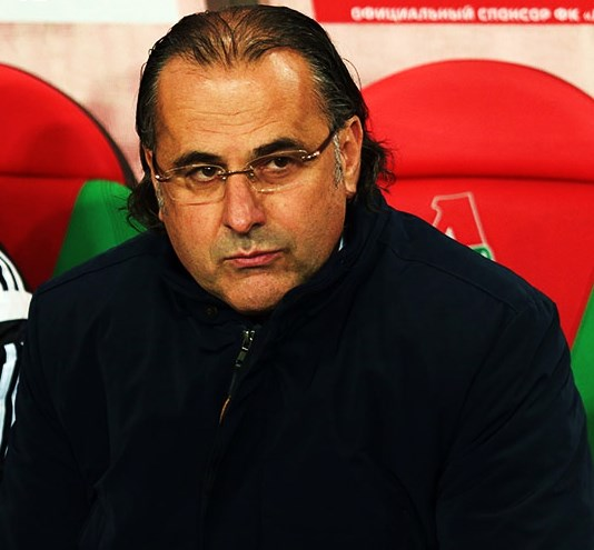 Miodrag Božović